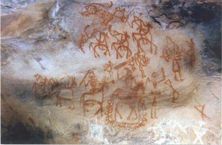 Photo of Bhumbetka Rock paintings by LR Burdak